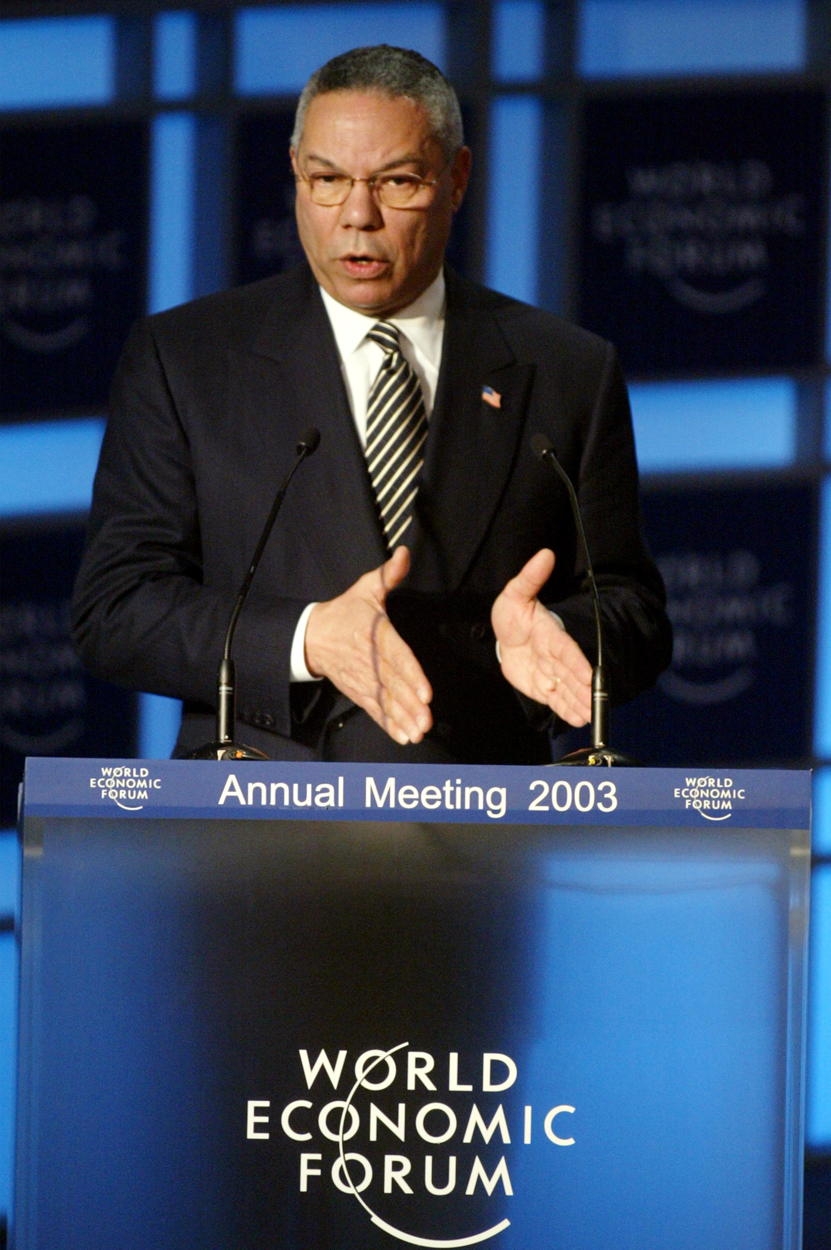 DAVOS,26JAN03 - Colin Powell, US Secretary of State, speaks during the session ' Dialogue with the US Secretary of State' at the 'Annual Meeting 2003' of the World Economic Forum in Davos/Switzerland, January 26, 2003. CCopyright World Economic Forum ( by Guenter Schiffmann